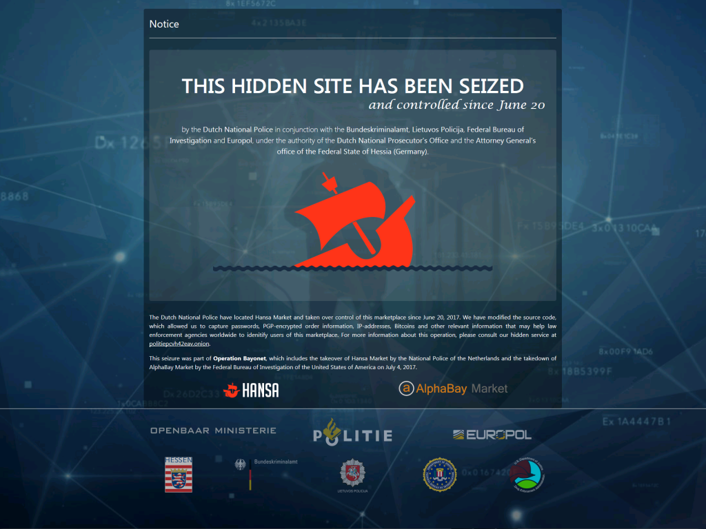 Seizure notice placed on hansa market website by the authotiries